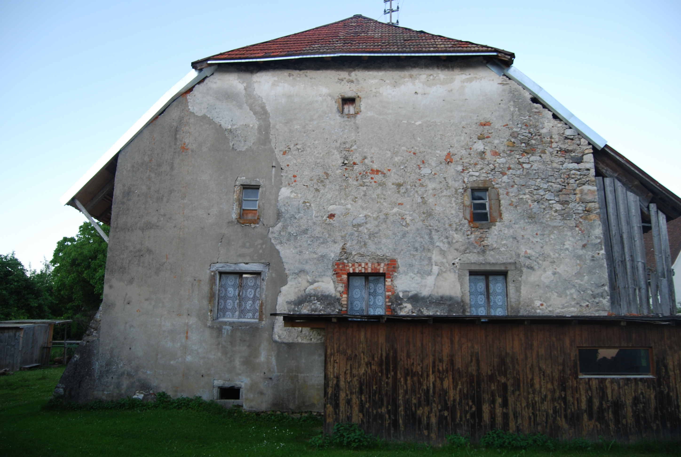 Massive stone house from the 16th century in Birkingen. Maybe the in varios old documents mentioned Schäferhof